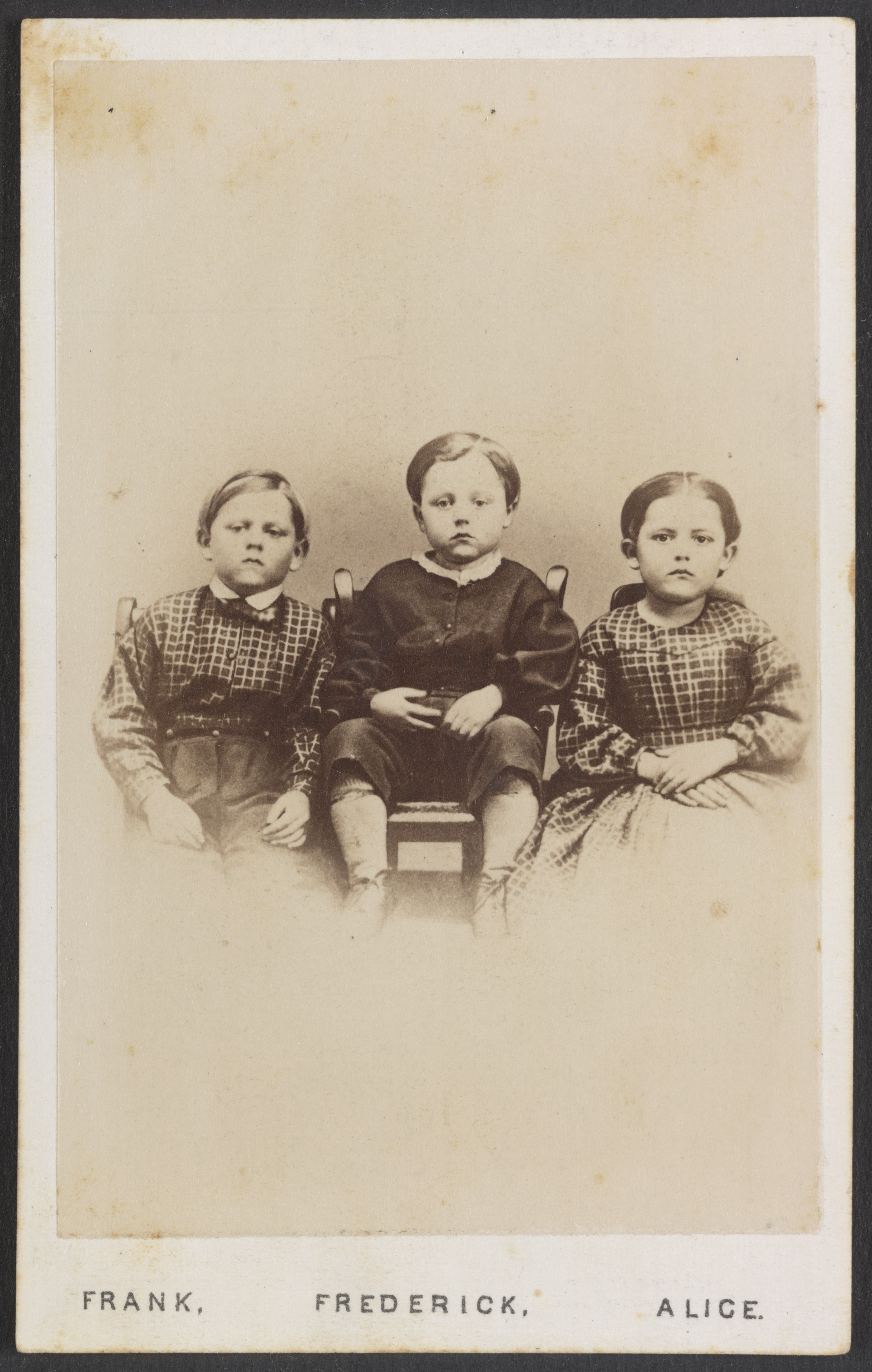 Title: "The children of the battle field" / Wenderoth, Taylor & Brown, 912-914 Chestnut Street, Philadelphia. Abstract/medium: 1 photographic print on carte de visite mount : albumen ; 10.2 x 6.3 cm.